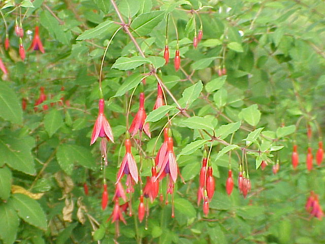 Species: Fuchsia magellanica Family: Onagraceae Image No. 1